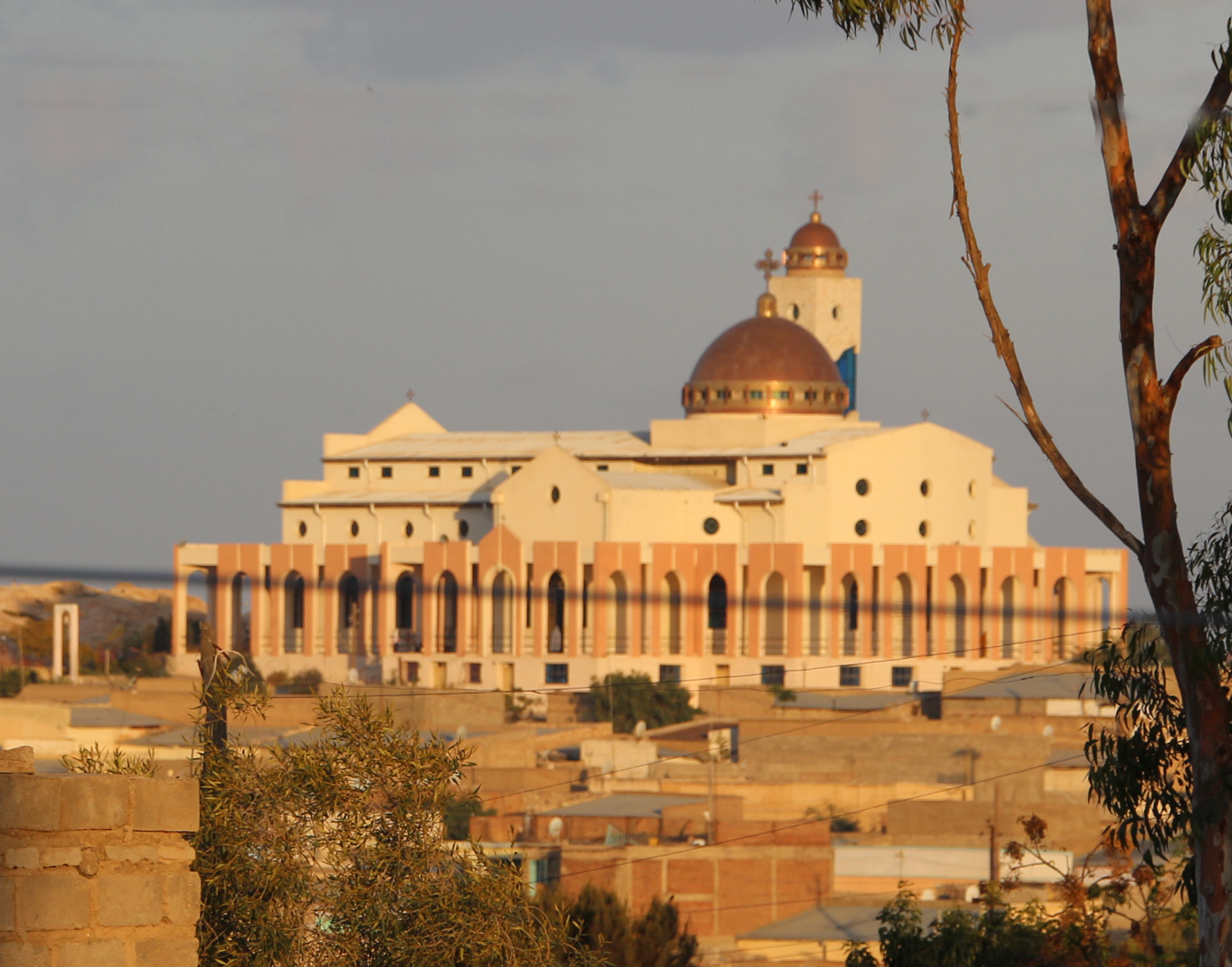 Adi Keyh